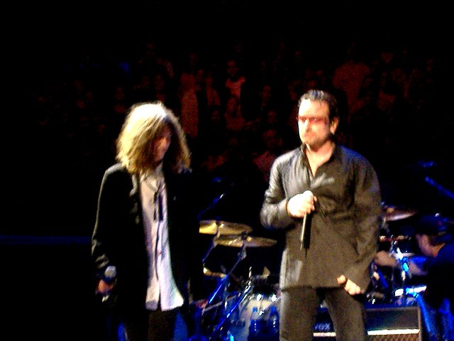 Patti Smith and Bono performing "Instant Karma!" at U2 concert at Madison Square Garden in New York City, United States.